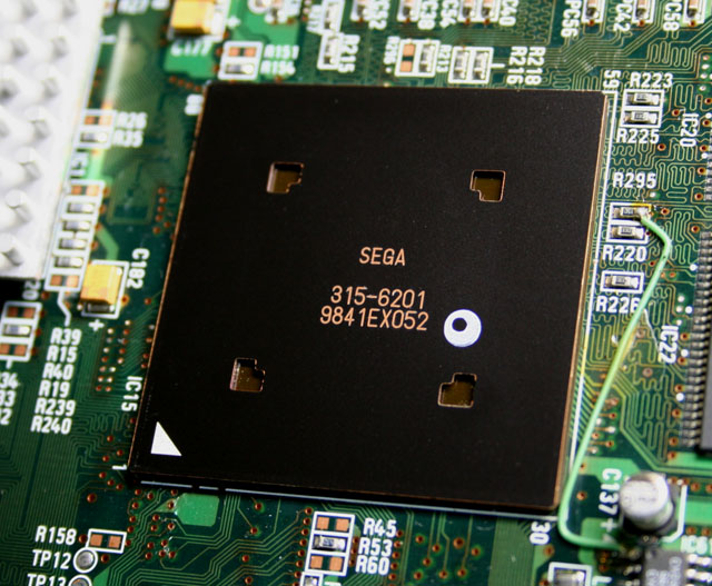 PowerV2DC(315-6201) for SEGA NAOMI.